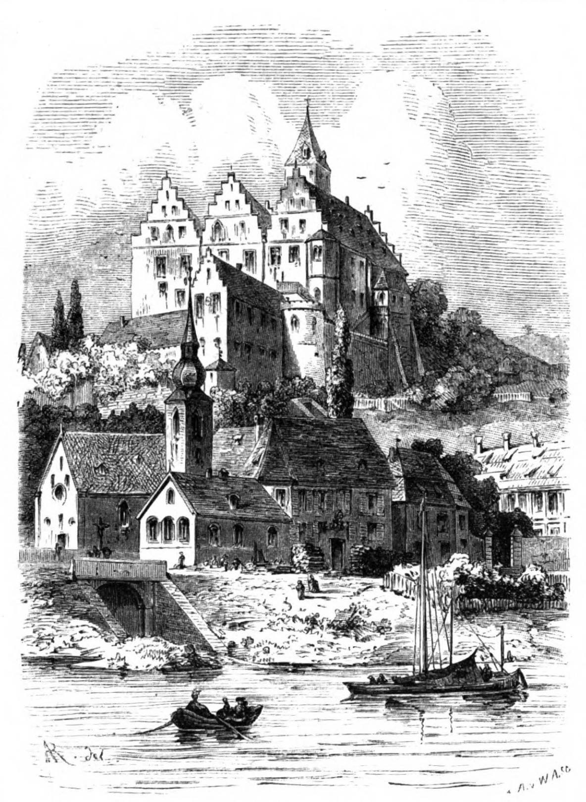 caption: "Schloß Mainberg."